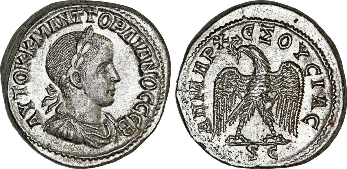 Gordien III